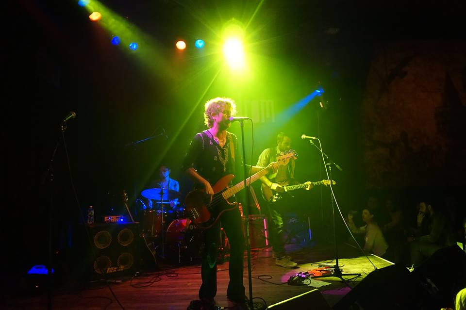 Twenty7 (27) at Drom in NY